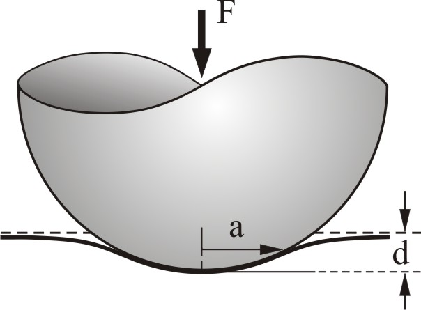 Contact between a rigid sphere and an elastic half space